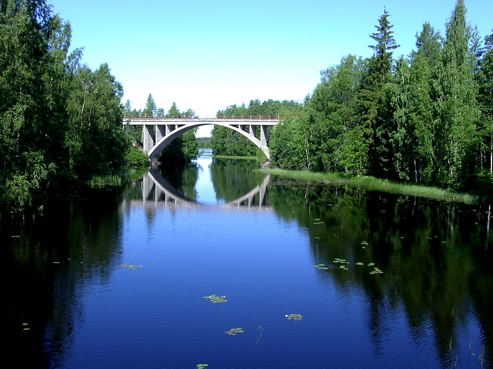 Potmo railroad bridge in Kannonkoski, Finland